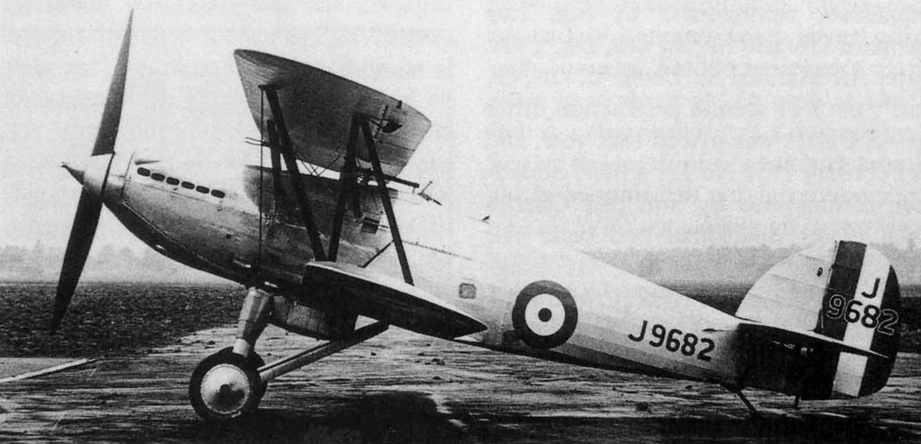 Hawker Hornet at Martelsham Heath 1929